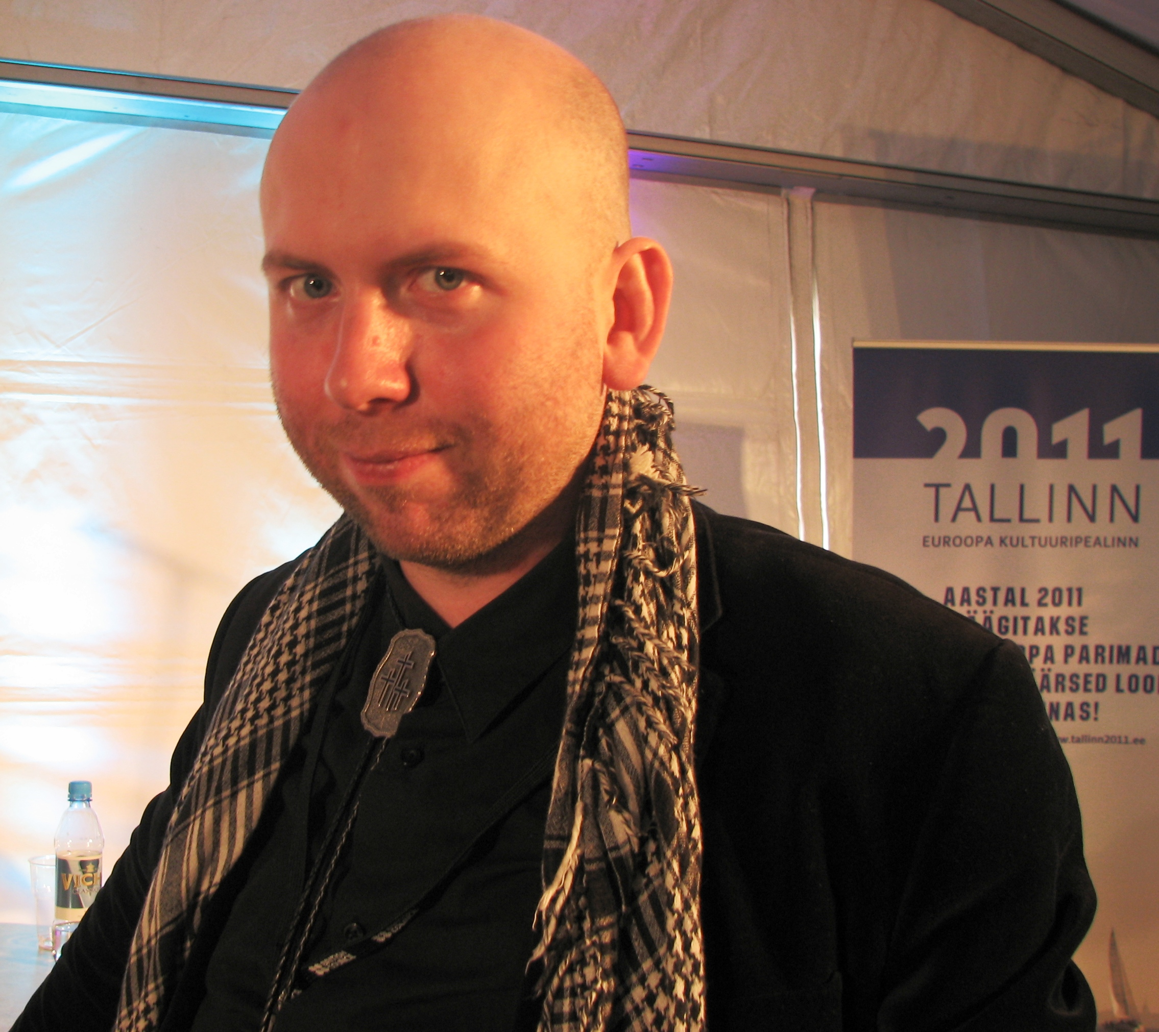 Jürgen Rooste in Tallinn Literature Festival HeadRead